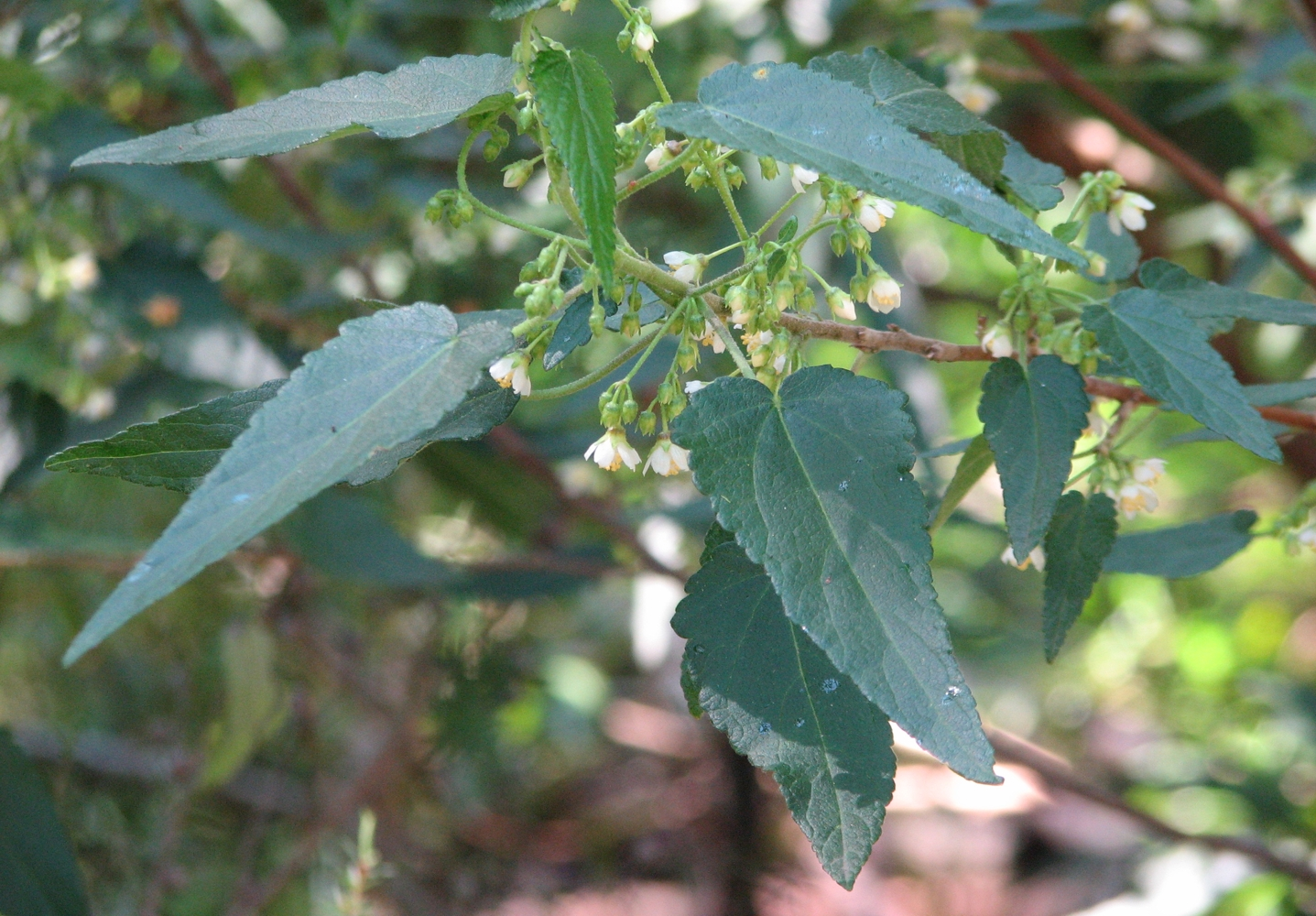 Gynatrix pulchella, Valley Reserve, Mount Waverley, Victoria, Australia